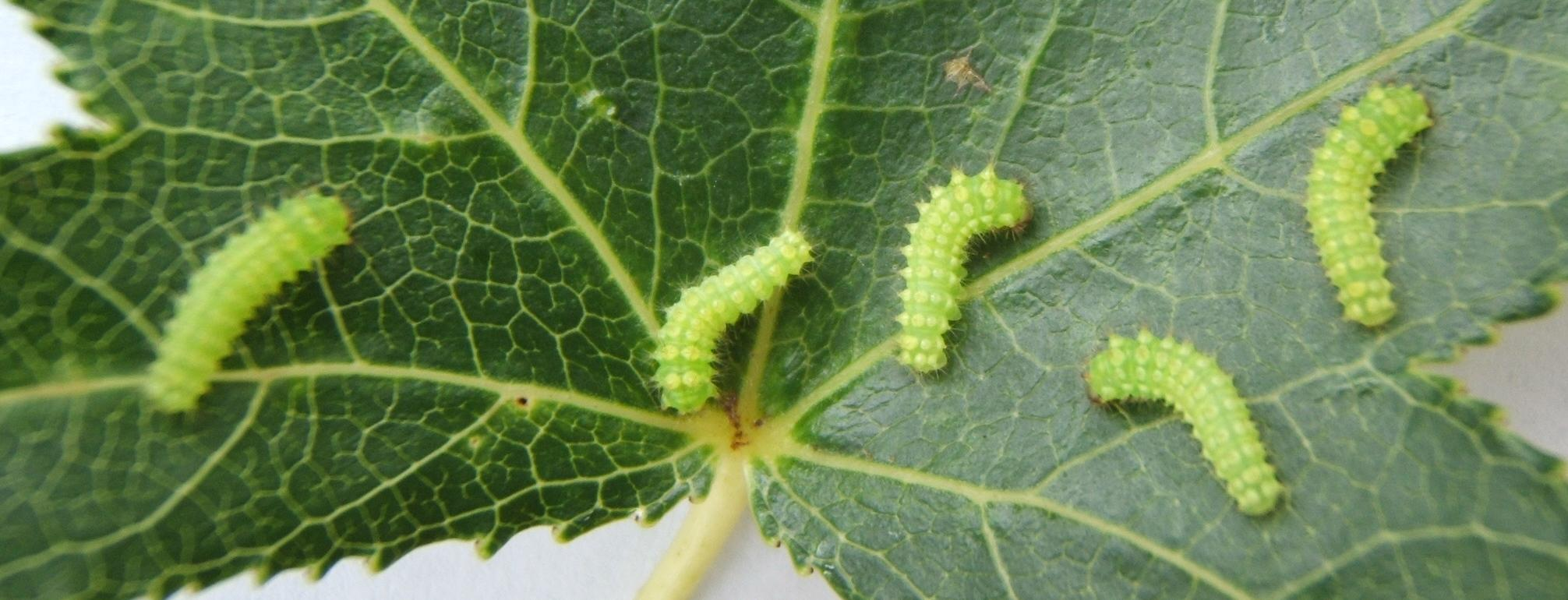 Actias luna 1st instar caterpillars taken by Shawn Hanrahan. Reared on American Sweetgum.